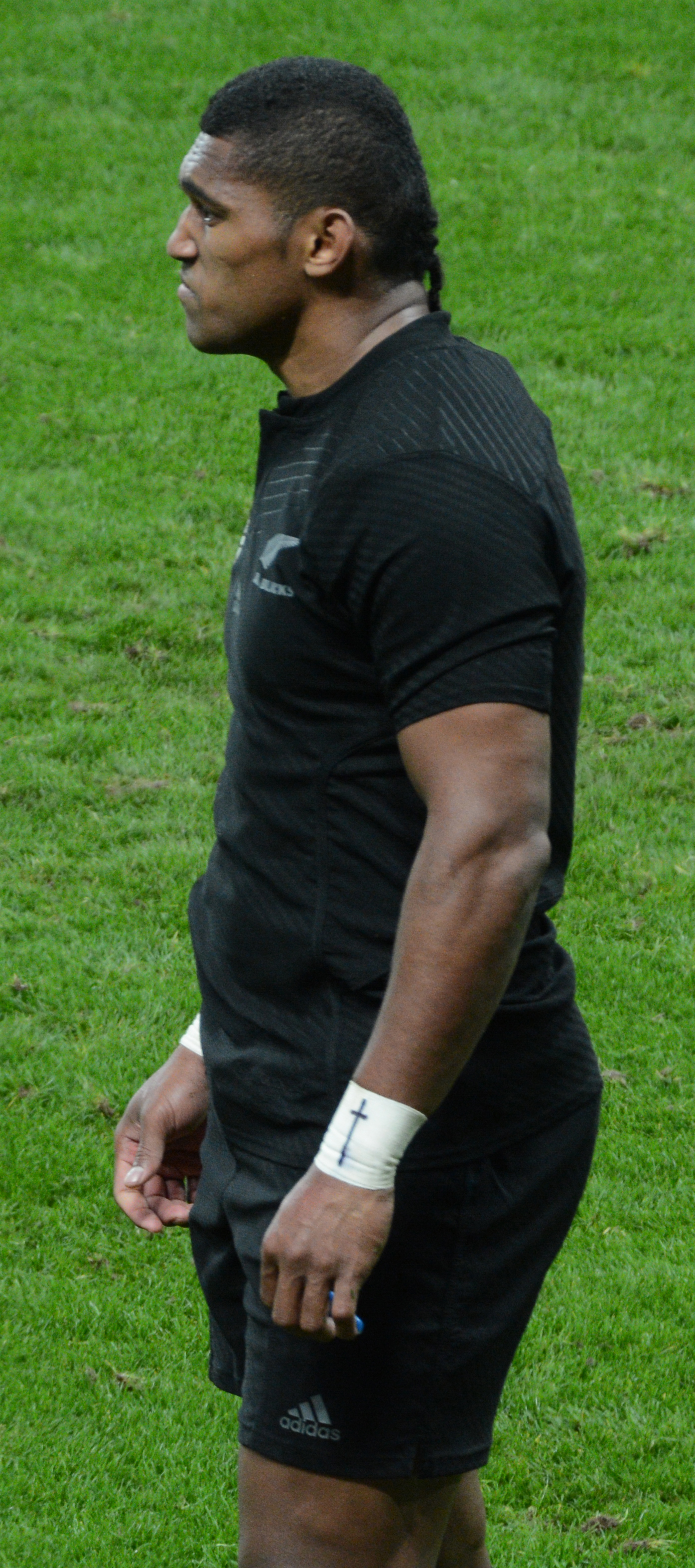 New Zealand international rugby union footballer Waisake Naholo playing in 2015 Rugby World Cup match against Tonga at St. James’ Park, Newcastle upon Tyne.